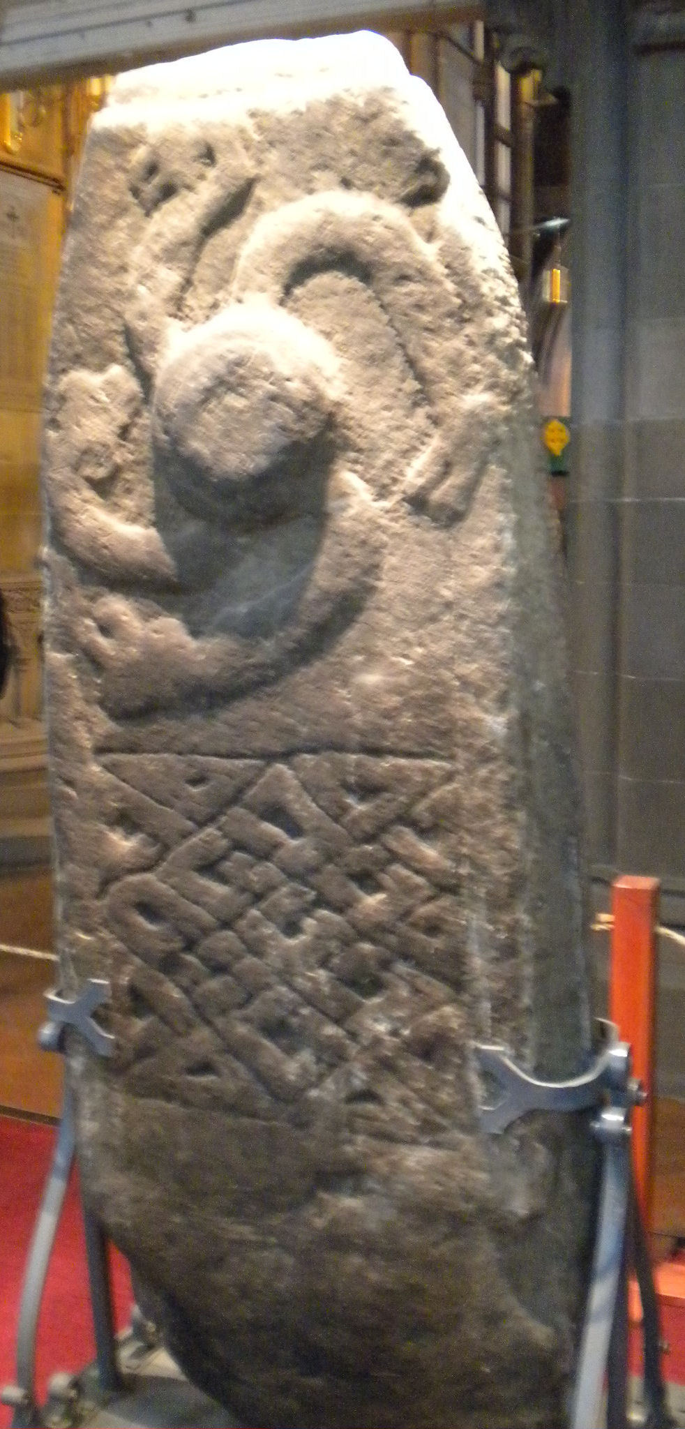 Carved cross in Govan Old Church, Glasgow. The cross came originally from the churchyard. It was laid flat.